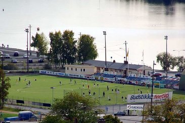 Kadettangen